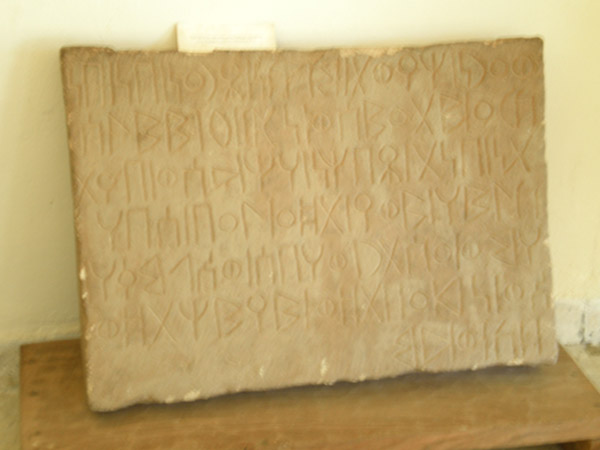 Epigraphy in ancient boustrophedon, pre-axoumitic period, found near Aksum - Aksum museum